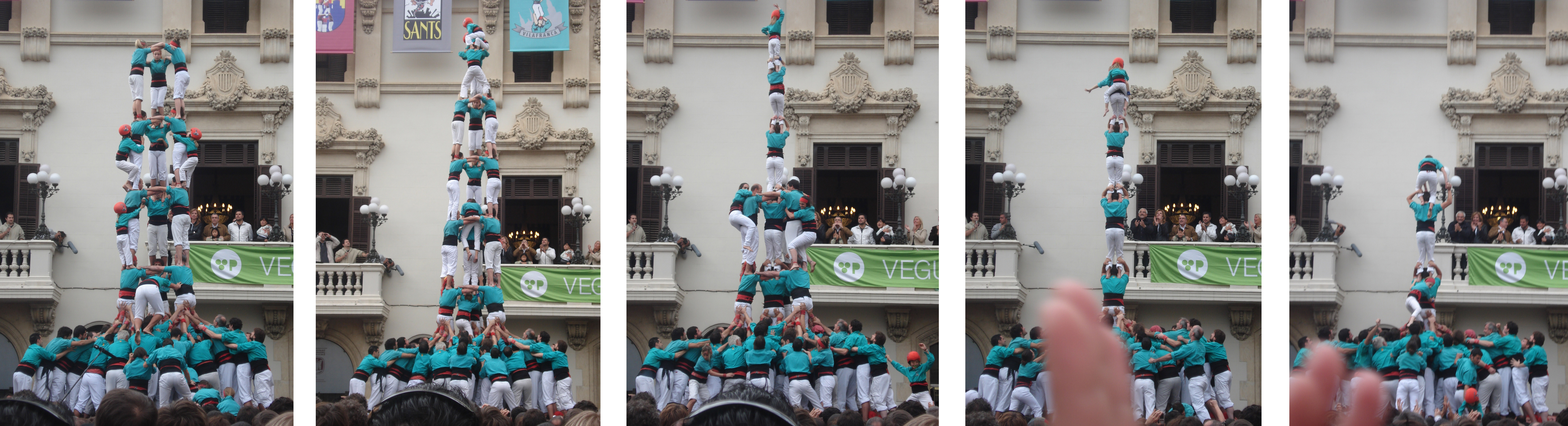 Second 3 de 9 amb folre i l'agulla completed in history, made by Castellers de Vilafranca.